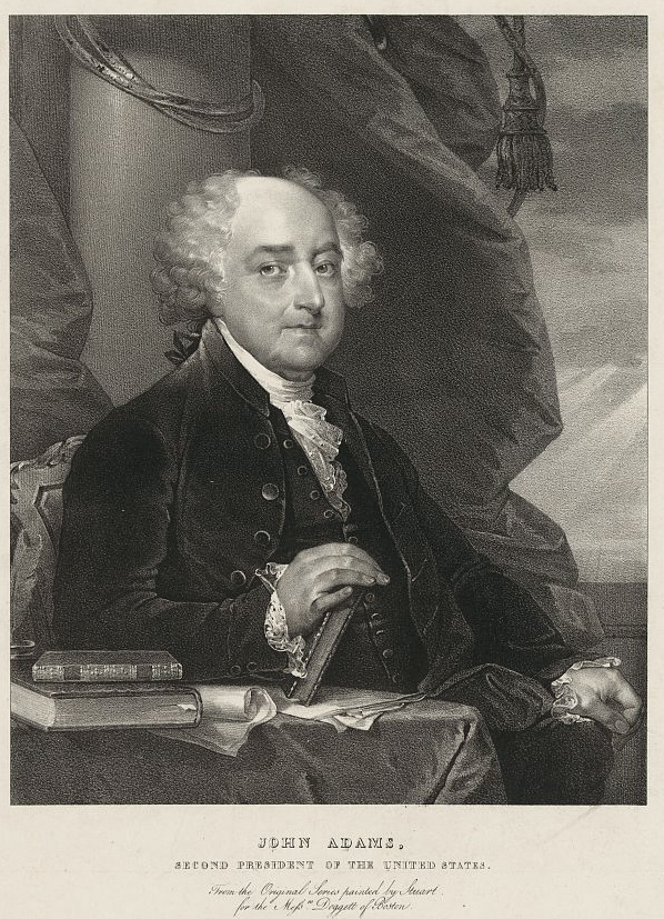 John Adams, second president of the United States. MEDIUM: 1 print : lithograph. CREATED/PUBLISHED: [1828(?)] CREATOR: Pendleton's Lithography. RELATED NAMES: Stuart, Gilbert, 1755-1828, artist. NOTES: From the original series painted by Stuart for the Messrs. Doggett of Boston. REPOSITORY: Library of Congress, Prints and Photographs Division. Washington, D.C. 20540 USA